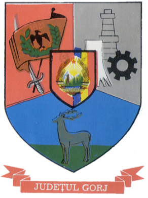 Communist coat of arms of Gorj County, Socialist Republic of Romania.